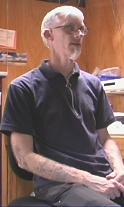 Tom Jennings, creator of the FidoNet computer network during an interview in Los Angeles, California on August 2, 2002. Cropped original image.